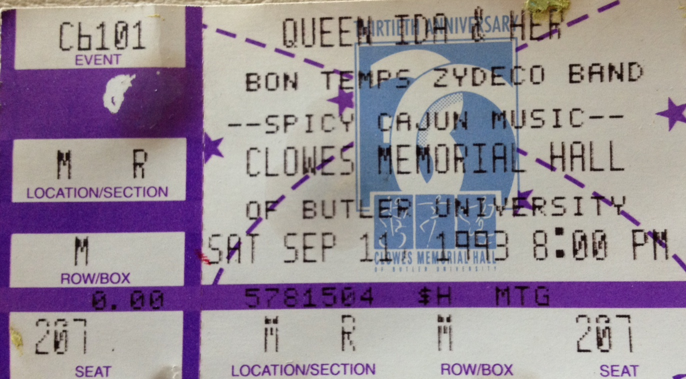 Queen Ida & Her Bon Temps Zydeco Band concert ticket Clowes Memorial Hall, Indianapolis, Indiana, September 11 1993